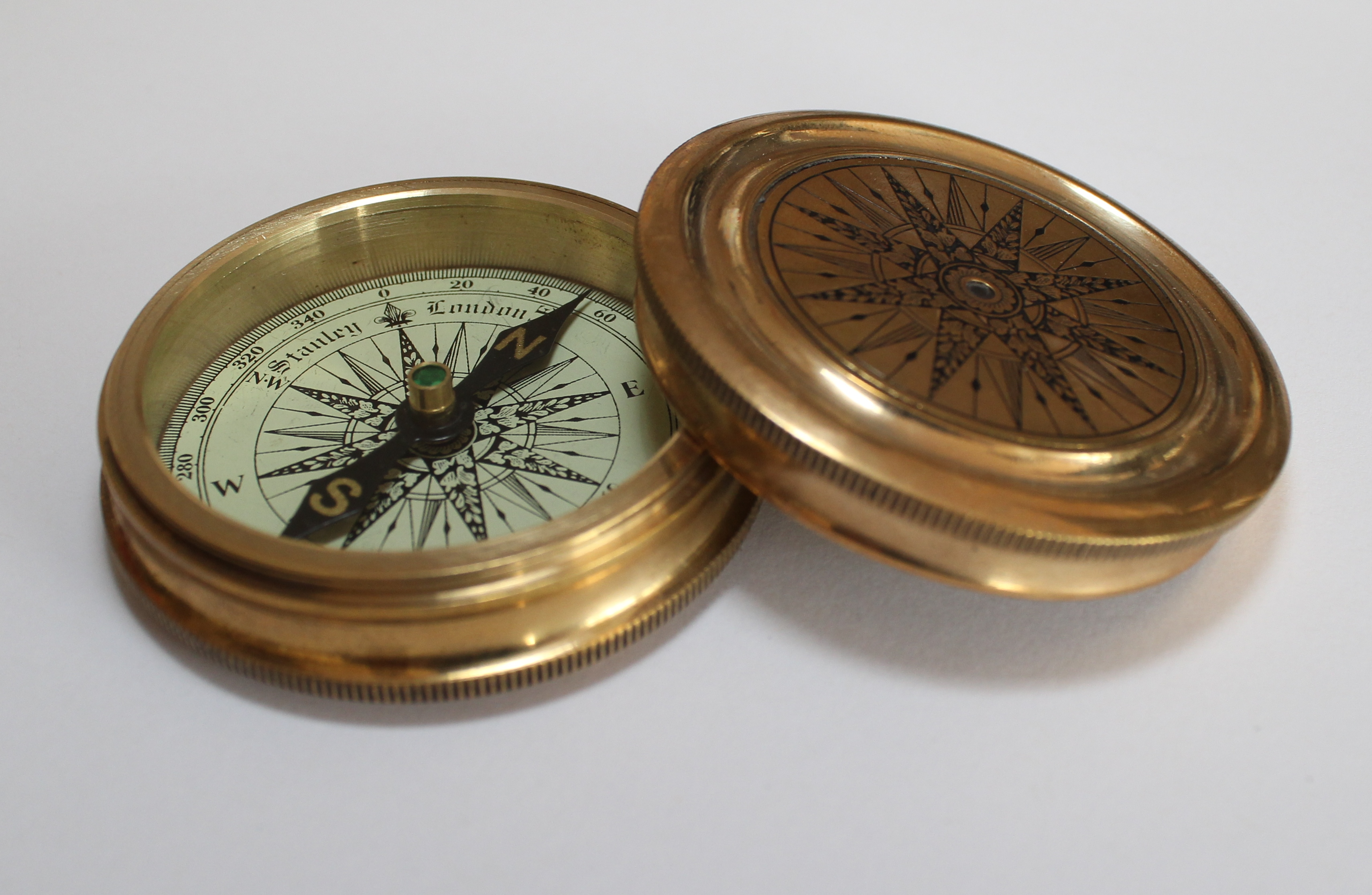 A compass